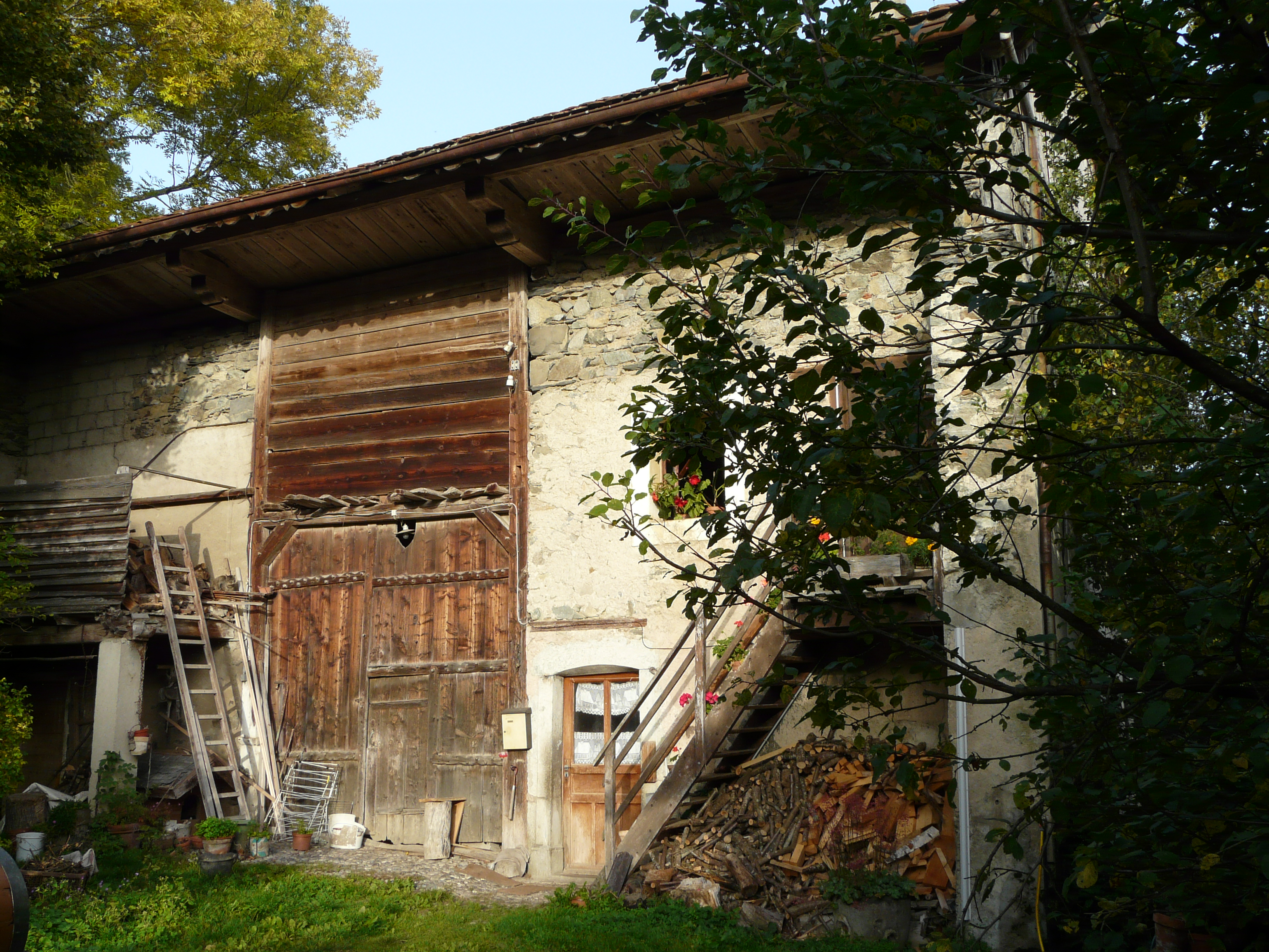 A traditional farmhouse in Chablais (Saint-Paul-en-Chablais F-74500)